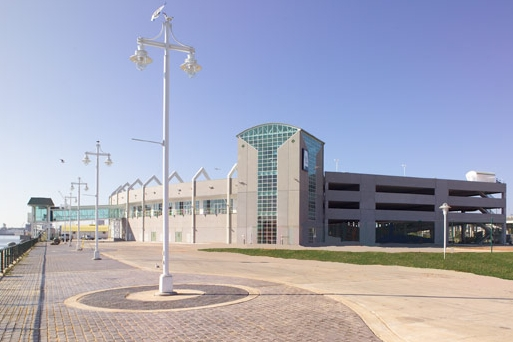 The Alabama Cruise Terminal on Water Street in Mobile, Alabama.